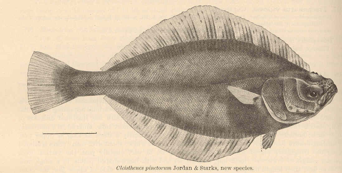 Cleisthenes pinetorum Jordan & Starks, new species Subject: Pleuronectidae, Cleisthenes Tag: Fish